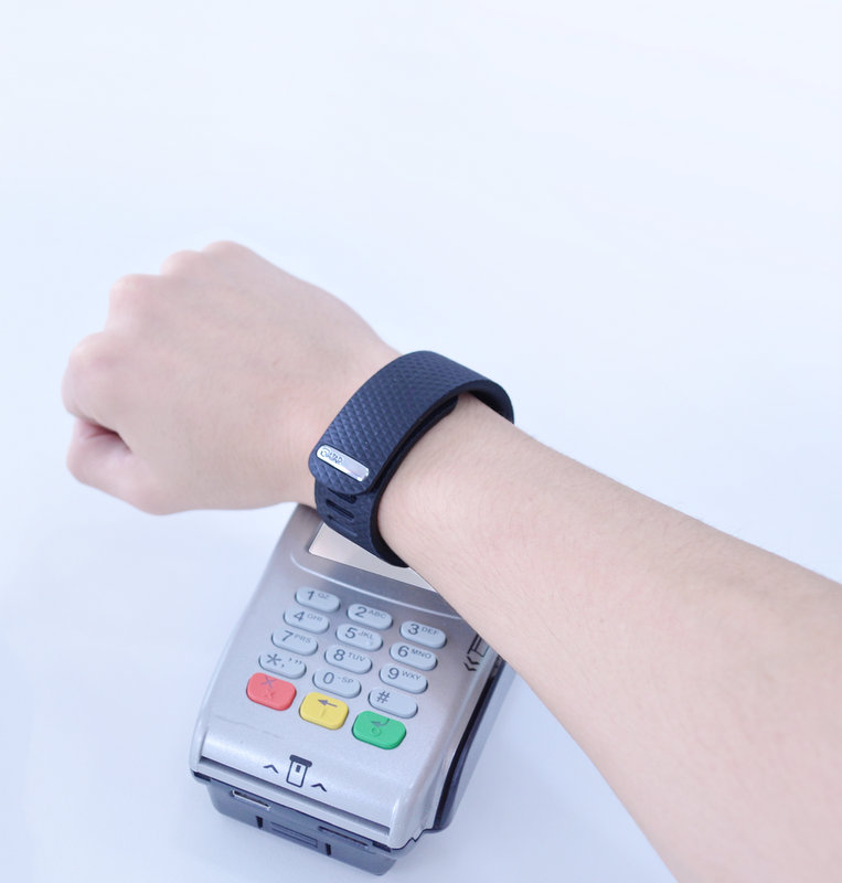 ATAR band, the brazilian smartband that make contactless payments.